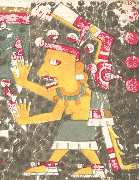 A drawing of Mictlancihuatl, one of the deities described in the Codex Borgia